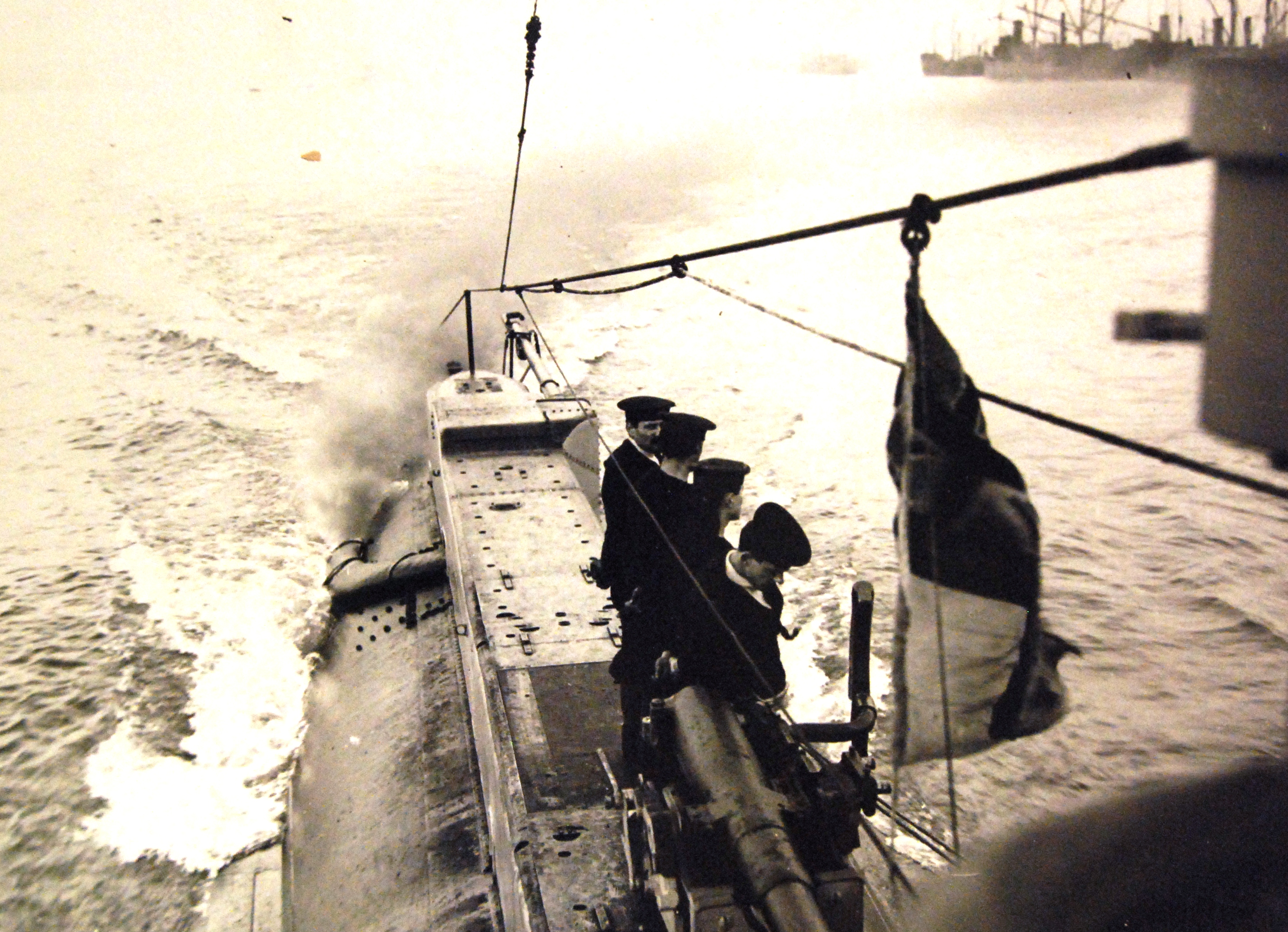 Lot 9609-6: Royal Navy (British) during the First World War. Royal Navy submarine, E 34, leaving Harwich Harbor, England. She was sunk by German mine on July 20, 1918. Collection was transferred from a British government source in 1920 to the Library of Congress. (9/18/2015).